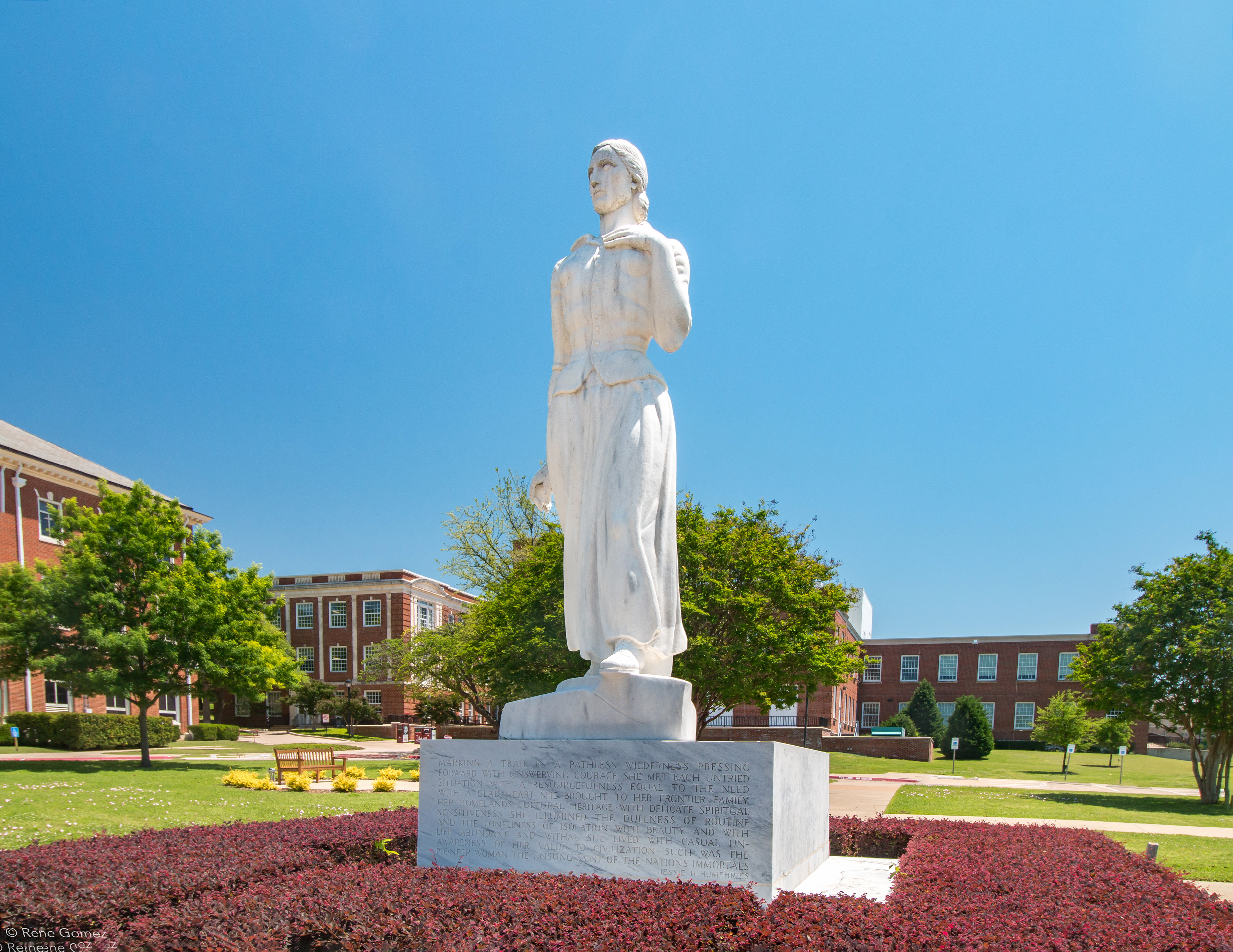 The Pioneer Woman Monument at Texas Women's University in Denton, Texas. Sculptor Leo Friedlander designed the figurative portion to memorialize 19th-century Texas pioneer women. The Piccirilli Brothers, of New York, carved Friedlander’s design into marble. The monument was commissioned for the 1936 Texas Centennial and dedicated in 1938. It was listed on the National Register of Historic Places on April 19, 2018.